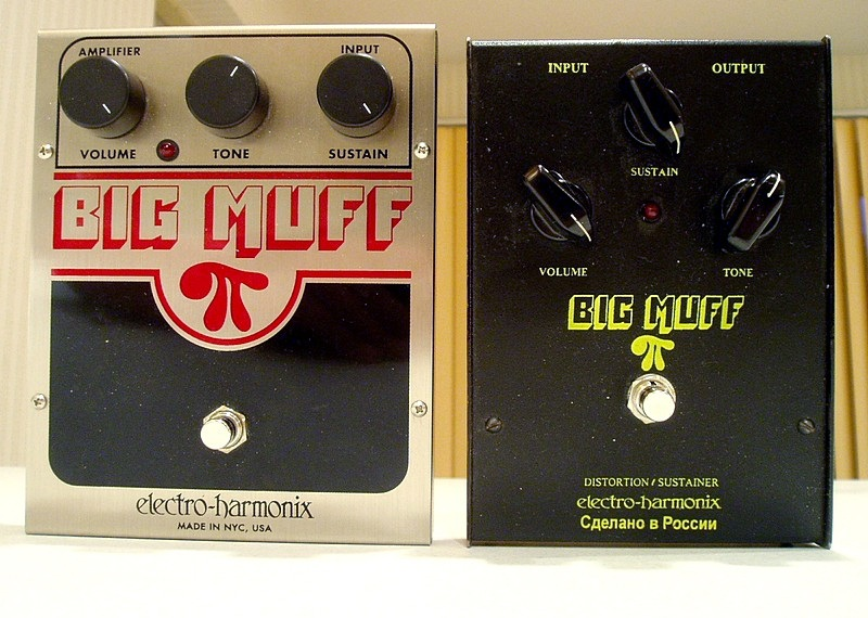 Photo taken by Tom S. NIRVANA2764 00:16, 11 July 2006 (UTC)